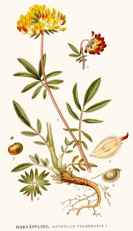 Original Description Harväppling, Anthyllis vulneraria L.